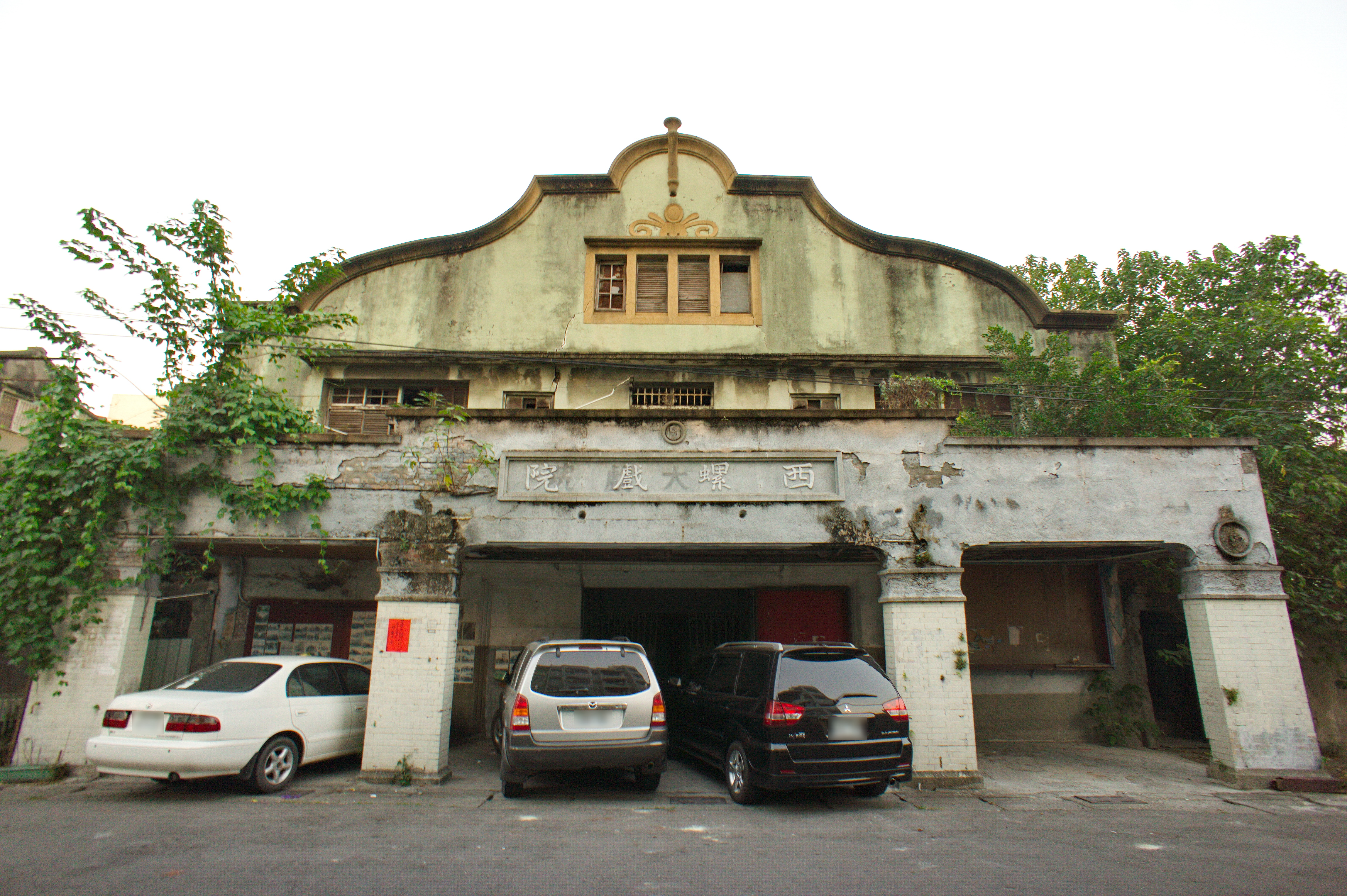 Siluo Theater, a defunct theater in Siluo, Yunlin County, Taiwan.